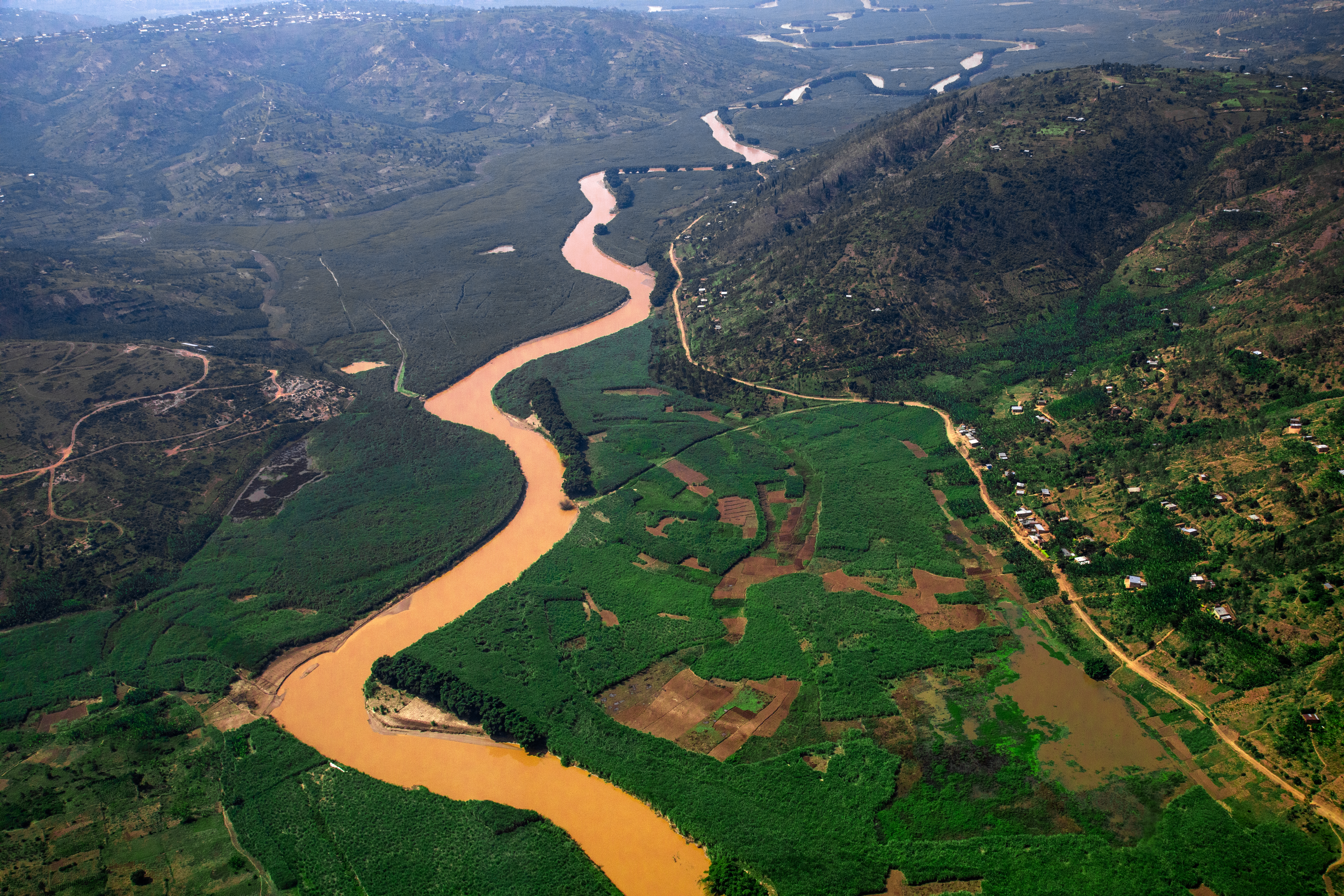 An aerial of Nyabarongo River from Nyungwe National Park to River Nile on June 17, 2019. At 297 km (184 miles), Nyabarongo is the longest river entirely in Rwanda. Emmanuel Kwizera